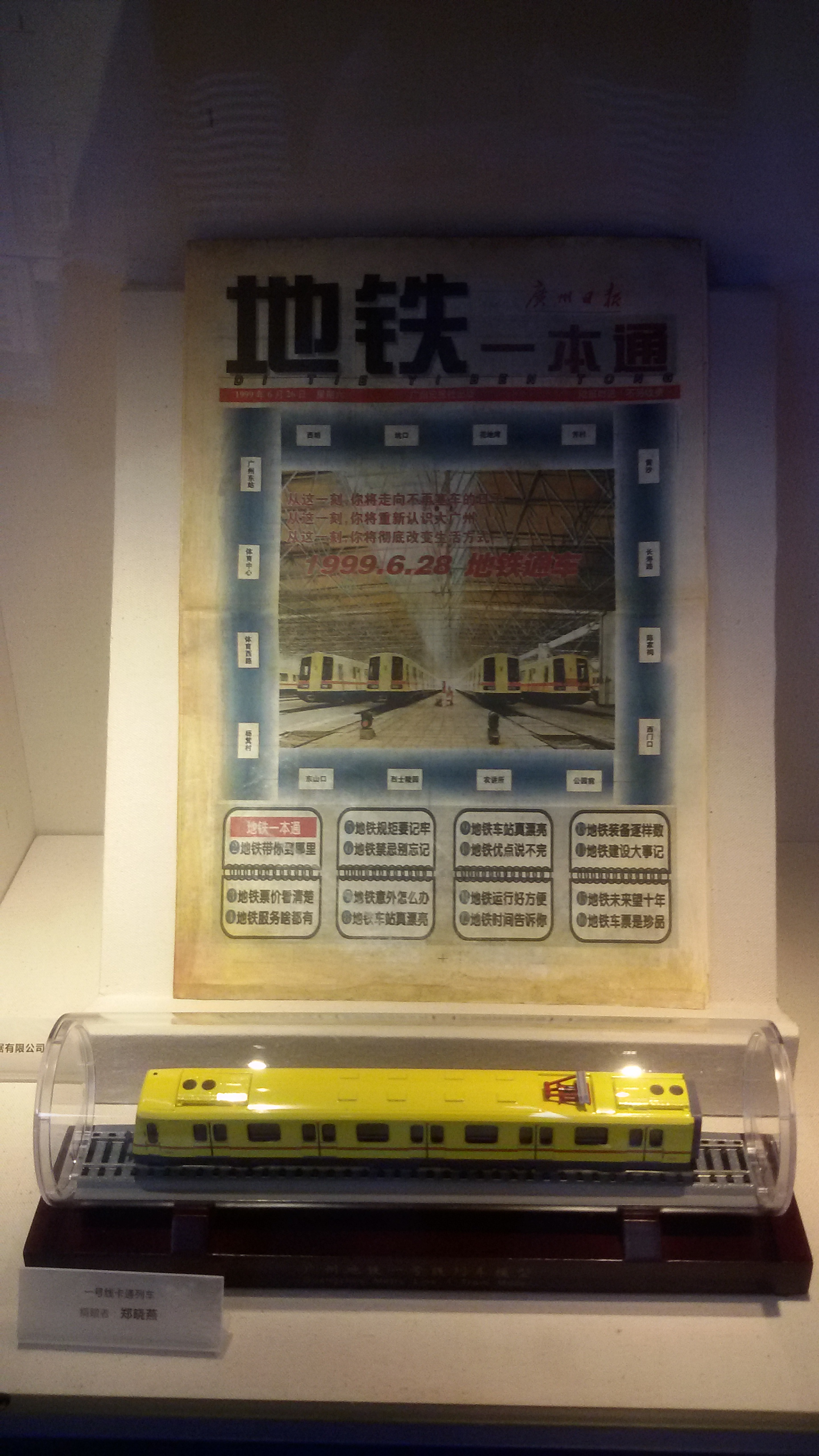 Line 1, Guangzhou Metro, have opened since Jun. 28th., 1999.